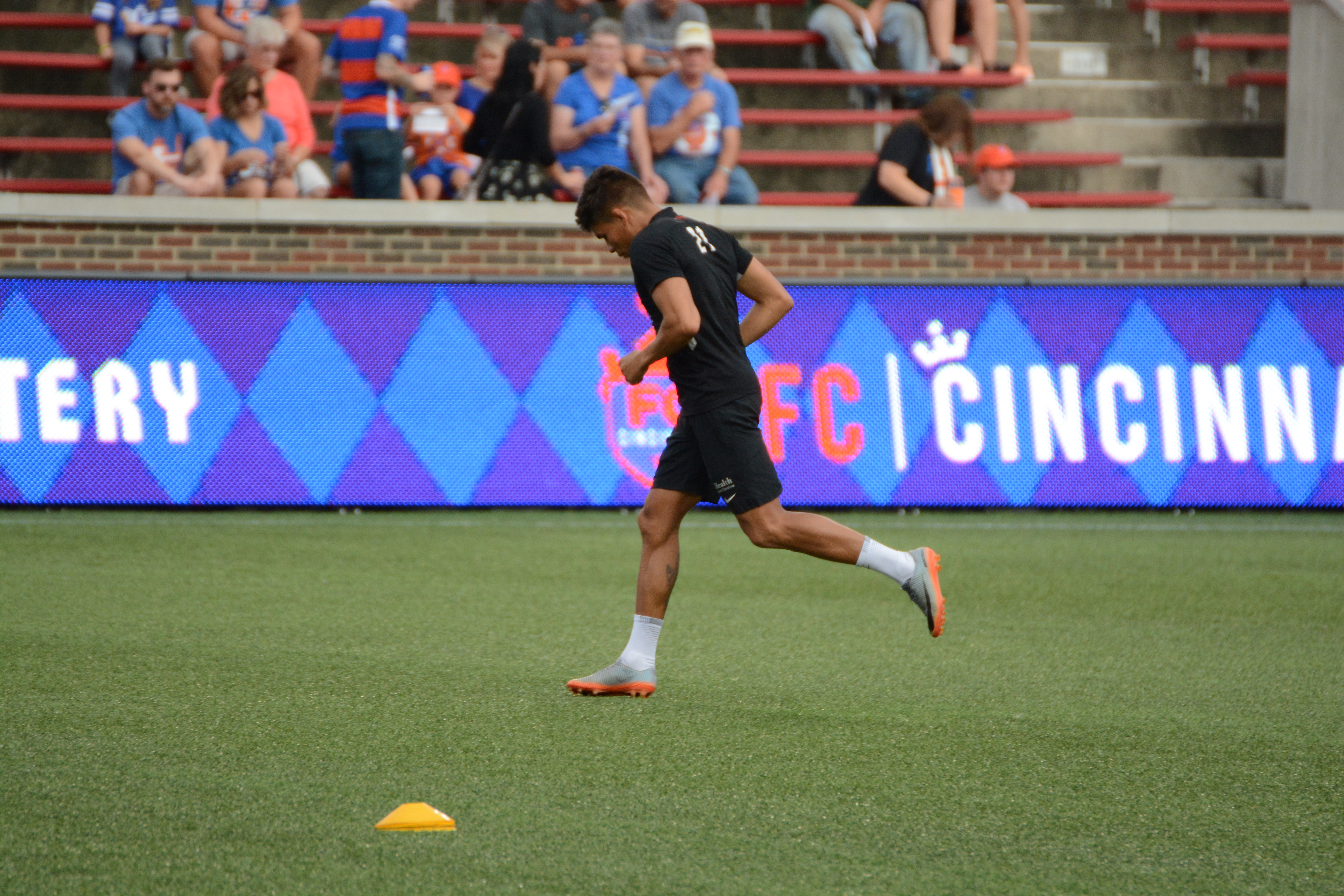 Taken during a USL regular season match between FC Cincinnati and Charleston Battery at Nippert Stadium in Cincinnati, USA on August 18, 2018.